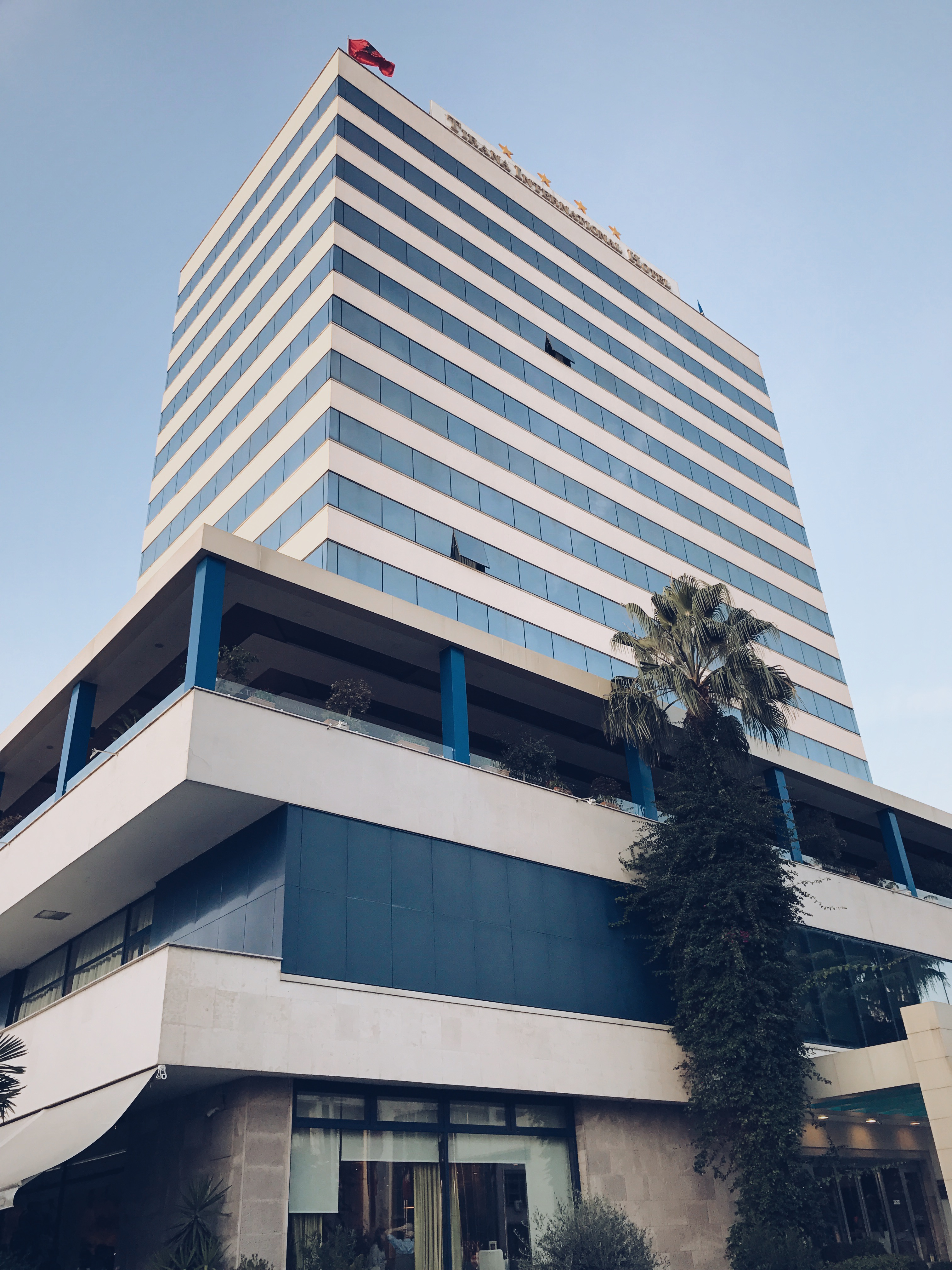 Photo of Tirana International Hotel